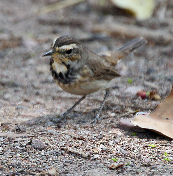 Bluethroat (Luscinia svecica at Keoladeo National Park, Bharatpur, Rajasthan, India.